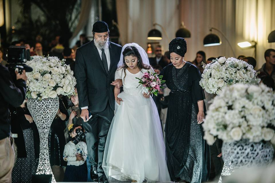 Escorting the bride to the bridal canopy